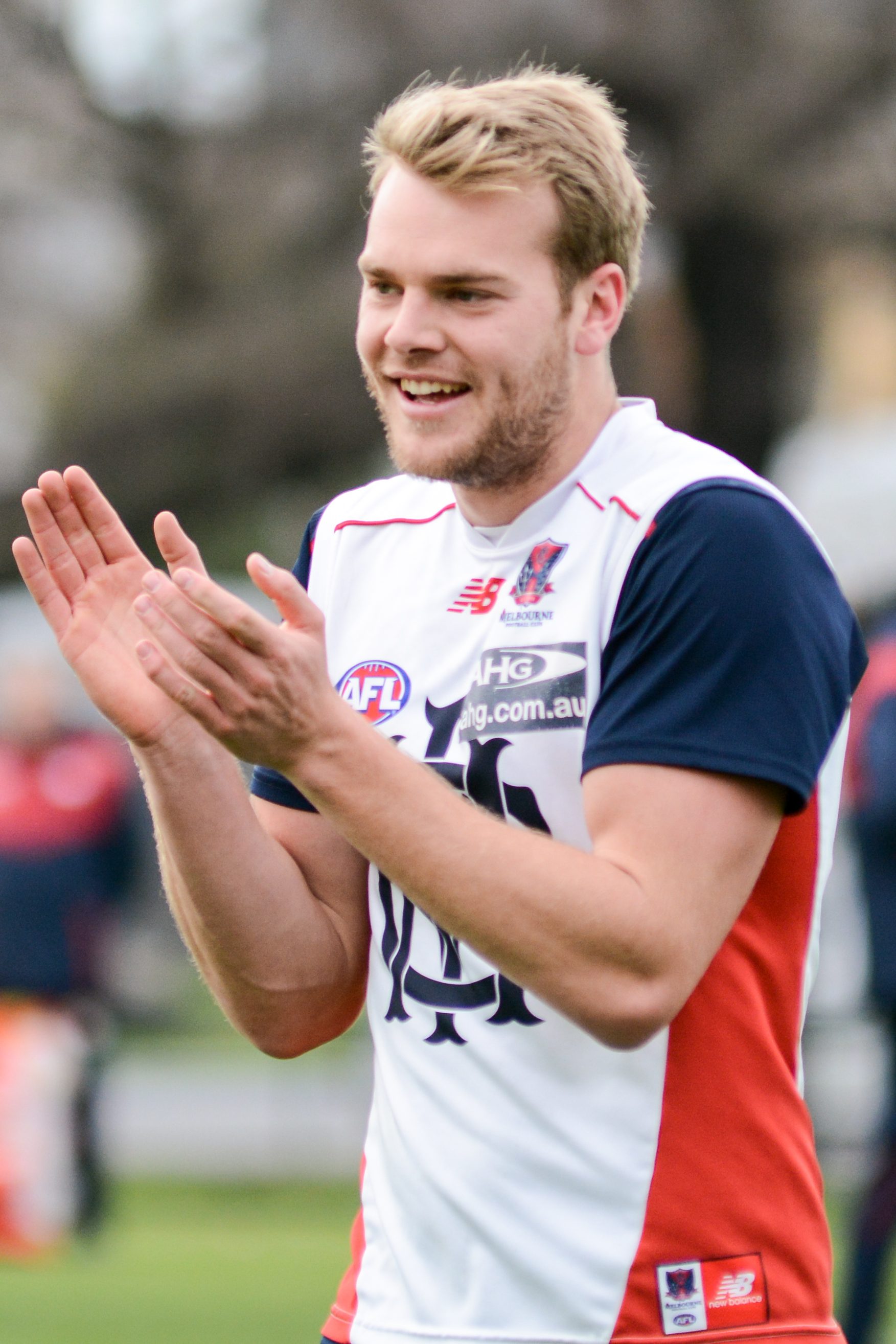 Jack Watts at training during July 2015